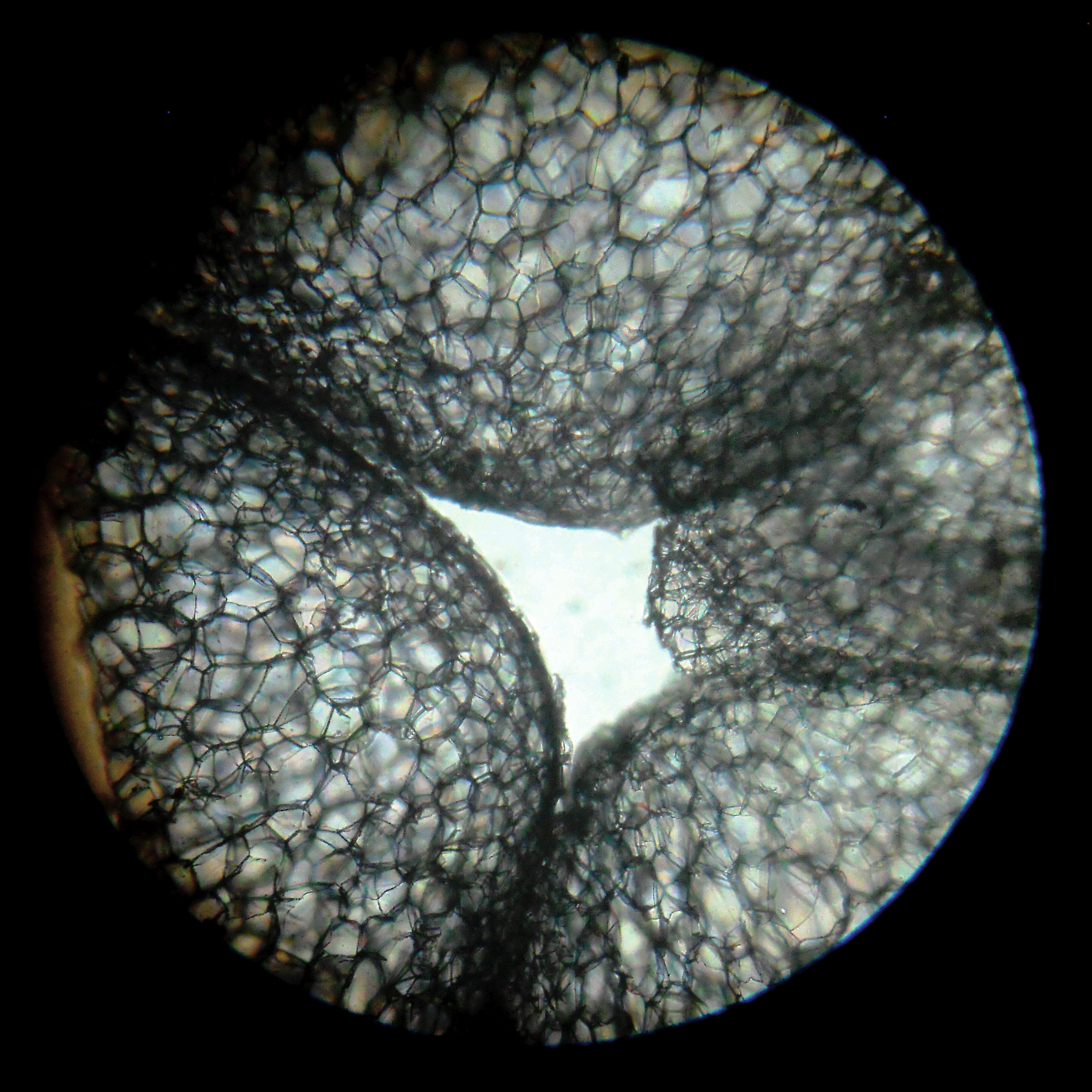 Section of a block of thermocol, under Light microscope (Bright-field, objective= 10X, eye piece= 15X). The 4 huge spherical things towards periferi, are thermocol-balls (that were compressed and fused into the block) . The large, bright, star-shaped hole at the center of the image, is an air-gap at the intermediate position of several adjascent balls, where the margin of the balls not properly fused. The many, tiny, polyhedral, slightly-irregular objects (looking like tissue-cells) tightly packed inside each large ball, are small air-bubbles with the wall of the bubble made-up of plastic (polystyrene).